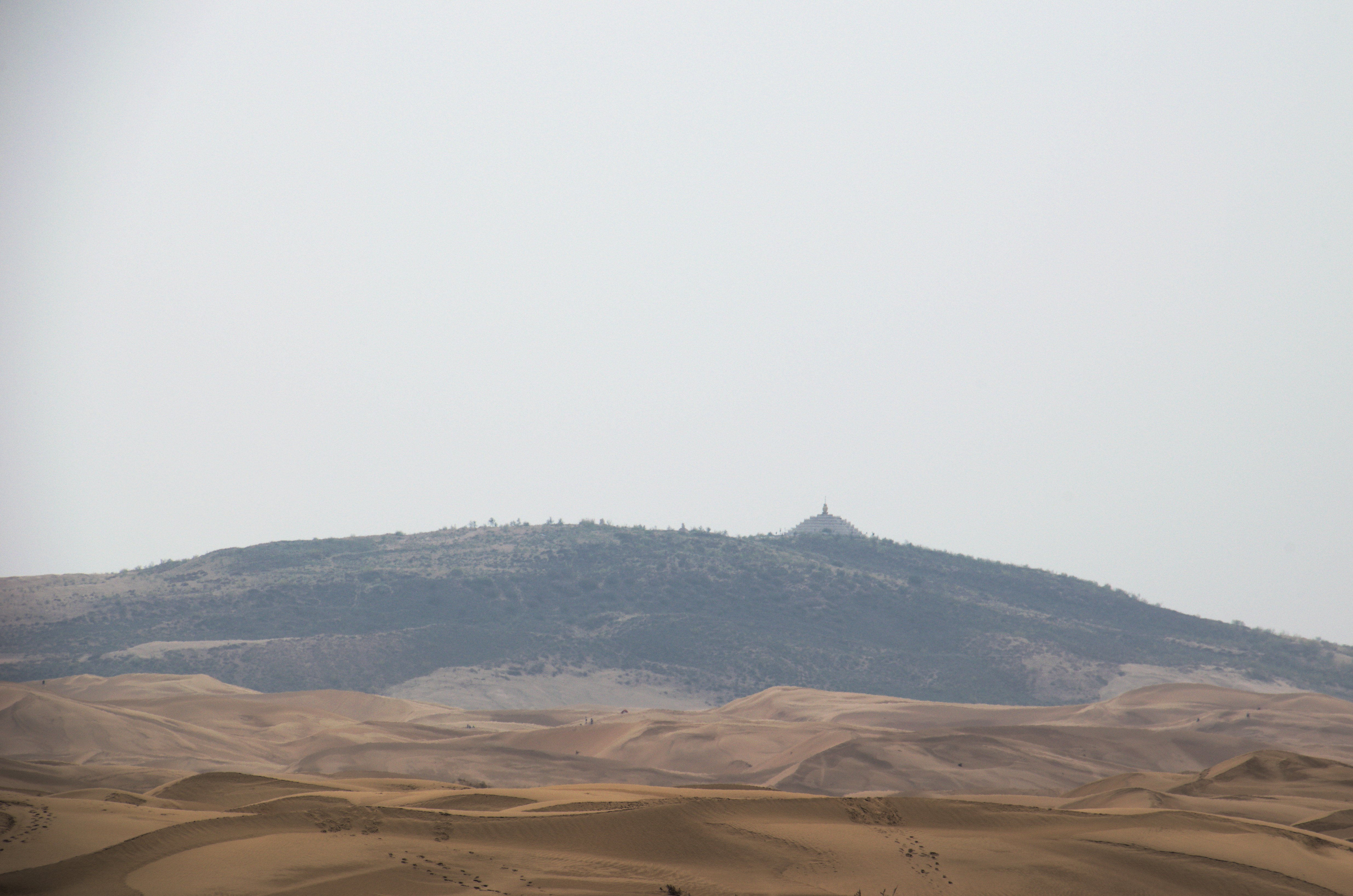 Dunes of sand and steppe in Kubuqi desert